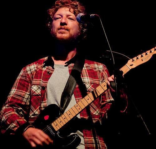 John Power, James Mcvey and Hillsborough justice Committee concert, Olympia, Liverpool.